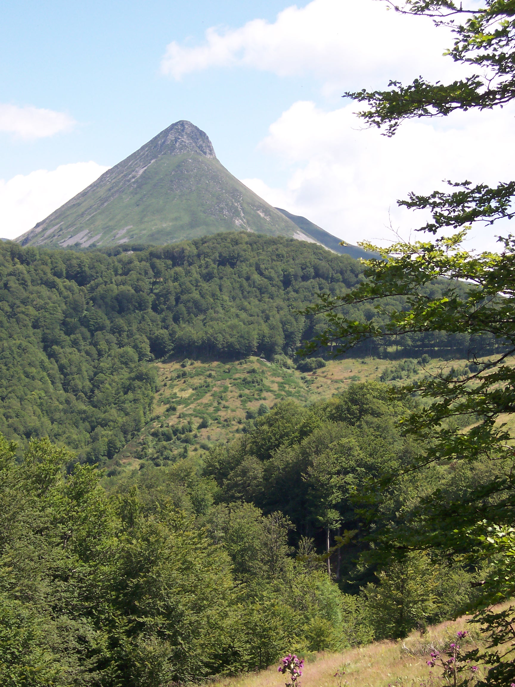 The Puy Griou : a phonolitic protrusion making one of the summits (1694 m) of the Monts du Cantal mountains (France).